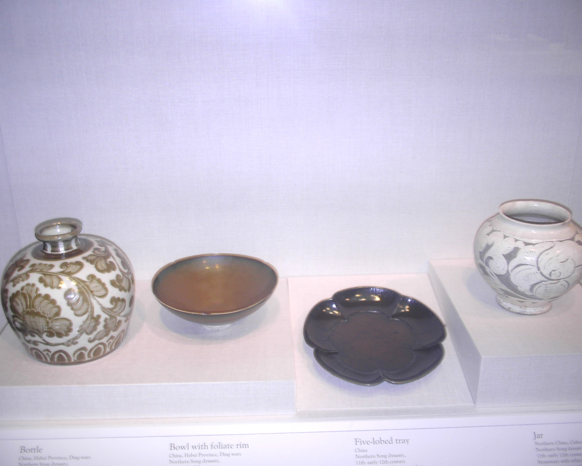 Chinese luxury items dating from the Song Dynasty (960-1279 AD) period of China, including: Far left item: A Ding-ware porcelain bottle with a clear colorless glaze and iron-tinted pigment, made in the 11th century or early 12th century, found in Hebei Province. Left center item: A dark glaze Ding-ware porcelain bowl with a foliate rim, made in the 11th or 12th century. Right center: A five-lobed lacquerware tray with a wooden base and metal rim, made in the 11th or 12th century. Far right item: A stoneware jar of the Cizhou type, with white slip under a transparent colorless glaze, made in the 11th or early 12th century. From the Freer and Sackler Galleries of Washington D.C. Author: User:PericlesofAthens Date: August 3, 2007